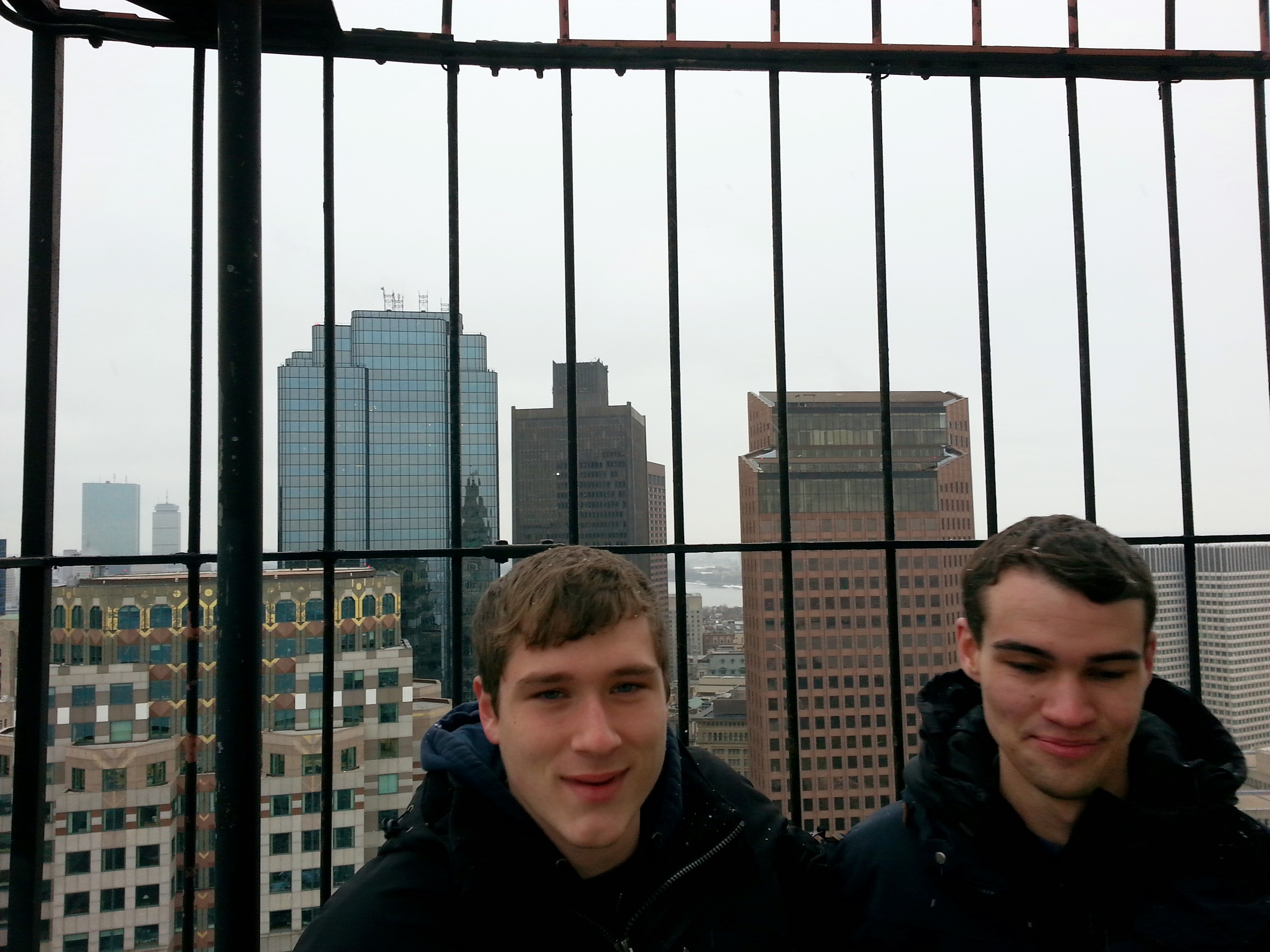 Two visitors on the public viewing platform at the top of the Custom House Tower in Boston, MA